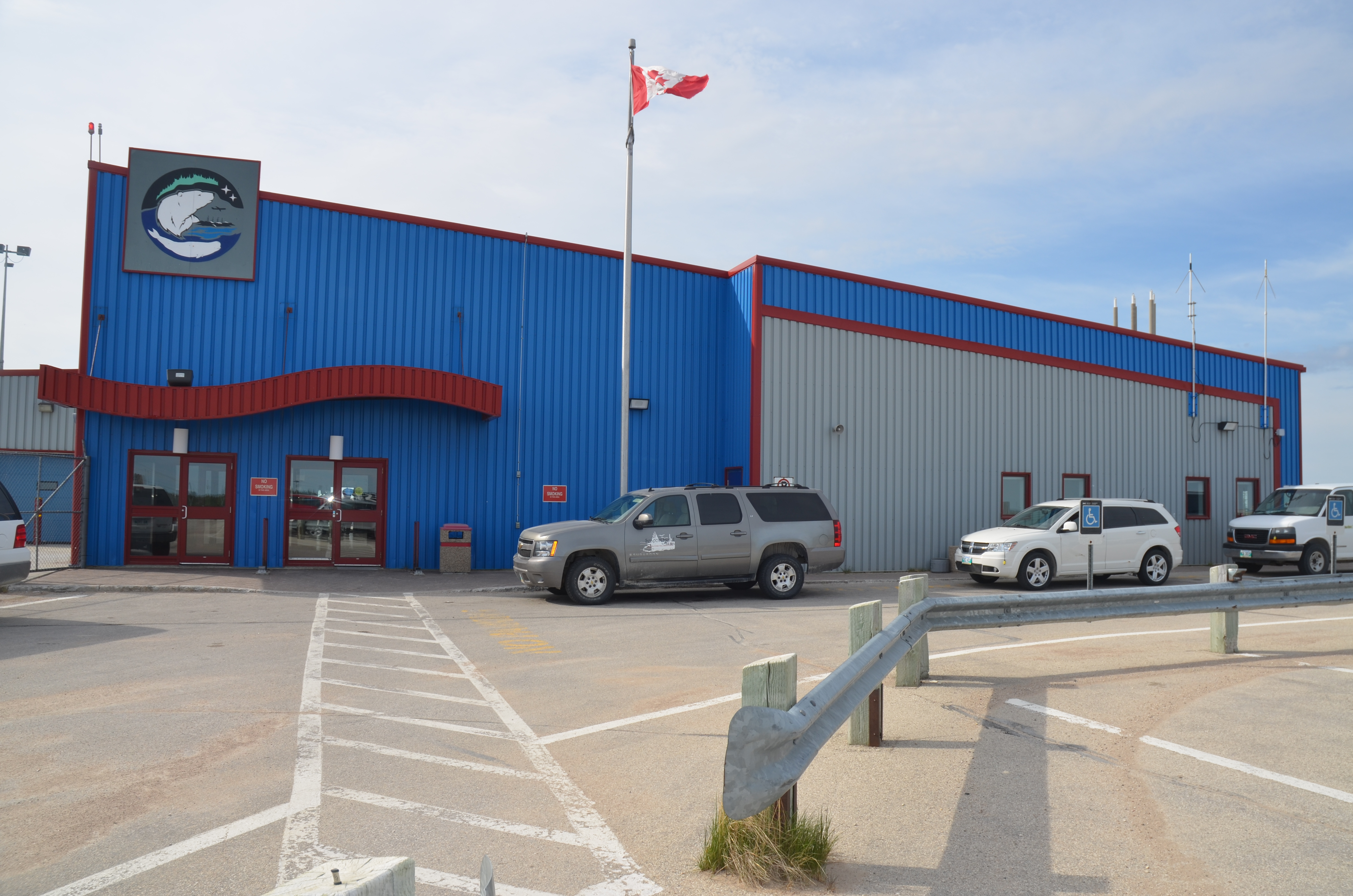 The small terminal building at Churchill airport.